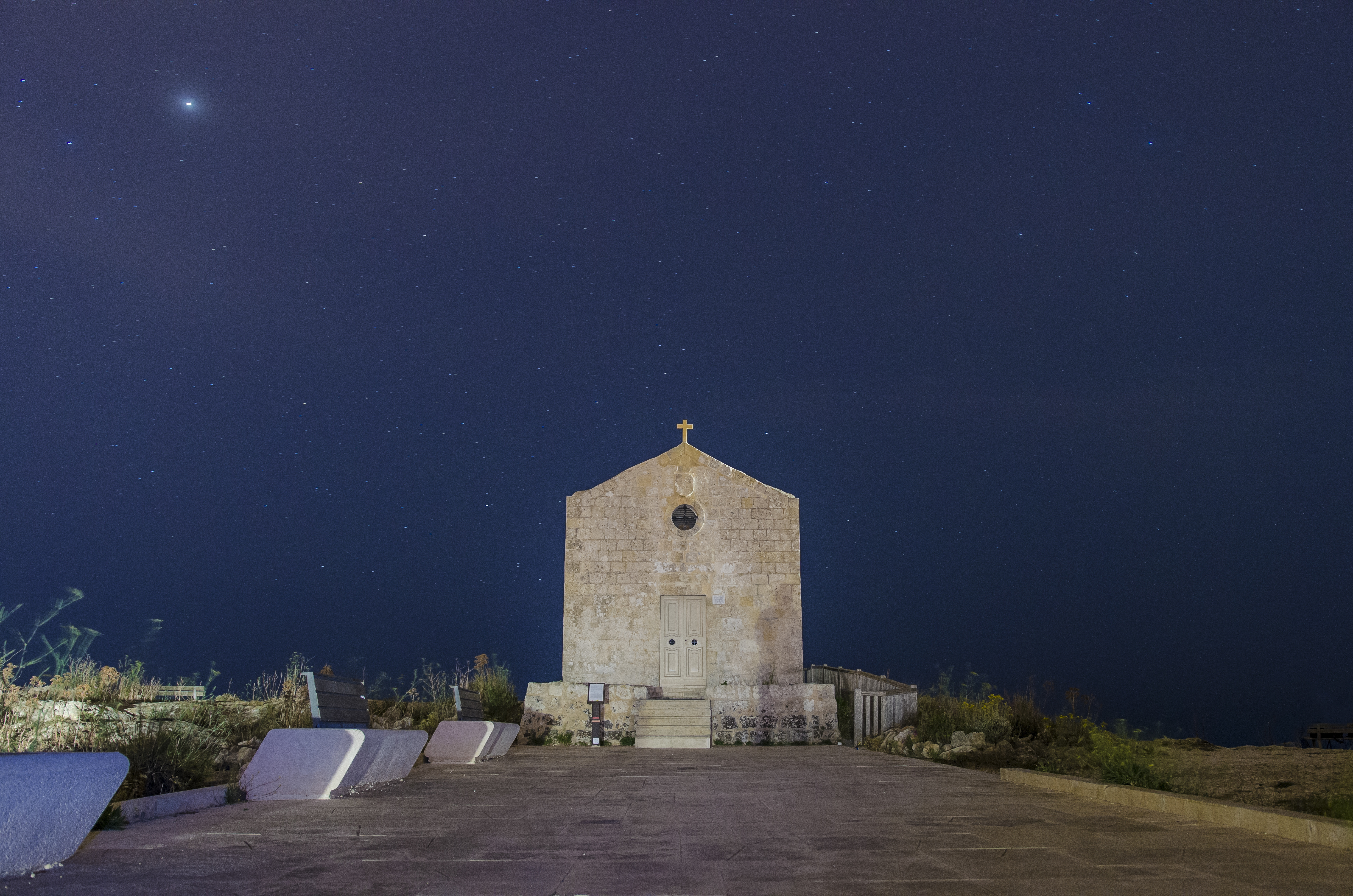 This media is about Maltese cultural property with inventory number 02308.